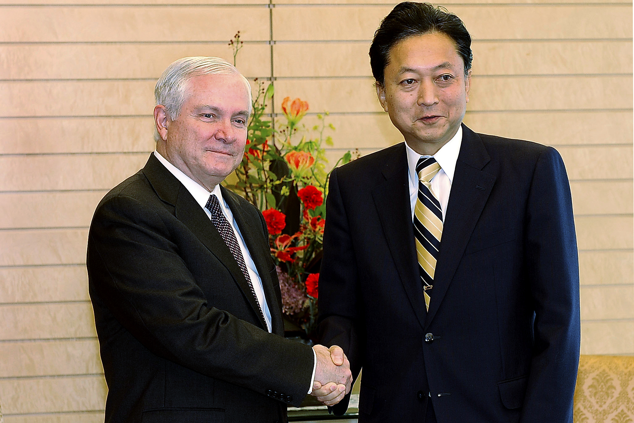 Robert Gates, Secretary of Defense, met Yukio Hatoyama, Prime Minister, at the Prime Minister's Official Residence in Chiyoda Ward, Tōkyō Metropolis on October 21, 2009.